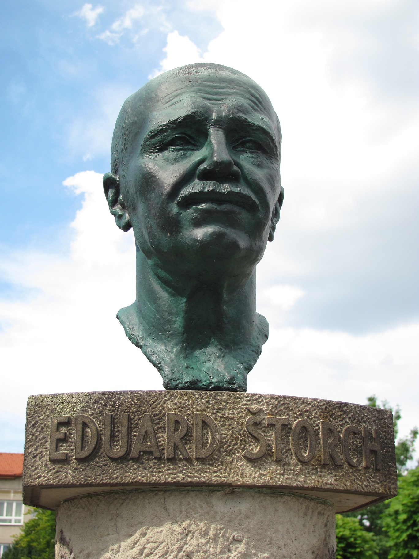 The bust of Eduard Štorch in Ostroměř, Jičín District, the Czech Republic. Sculptor: Josef Bílek.